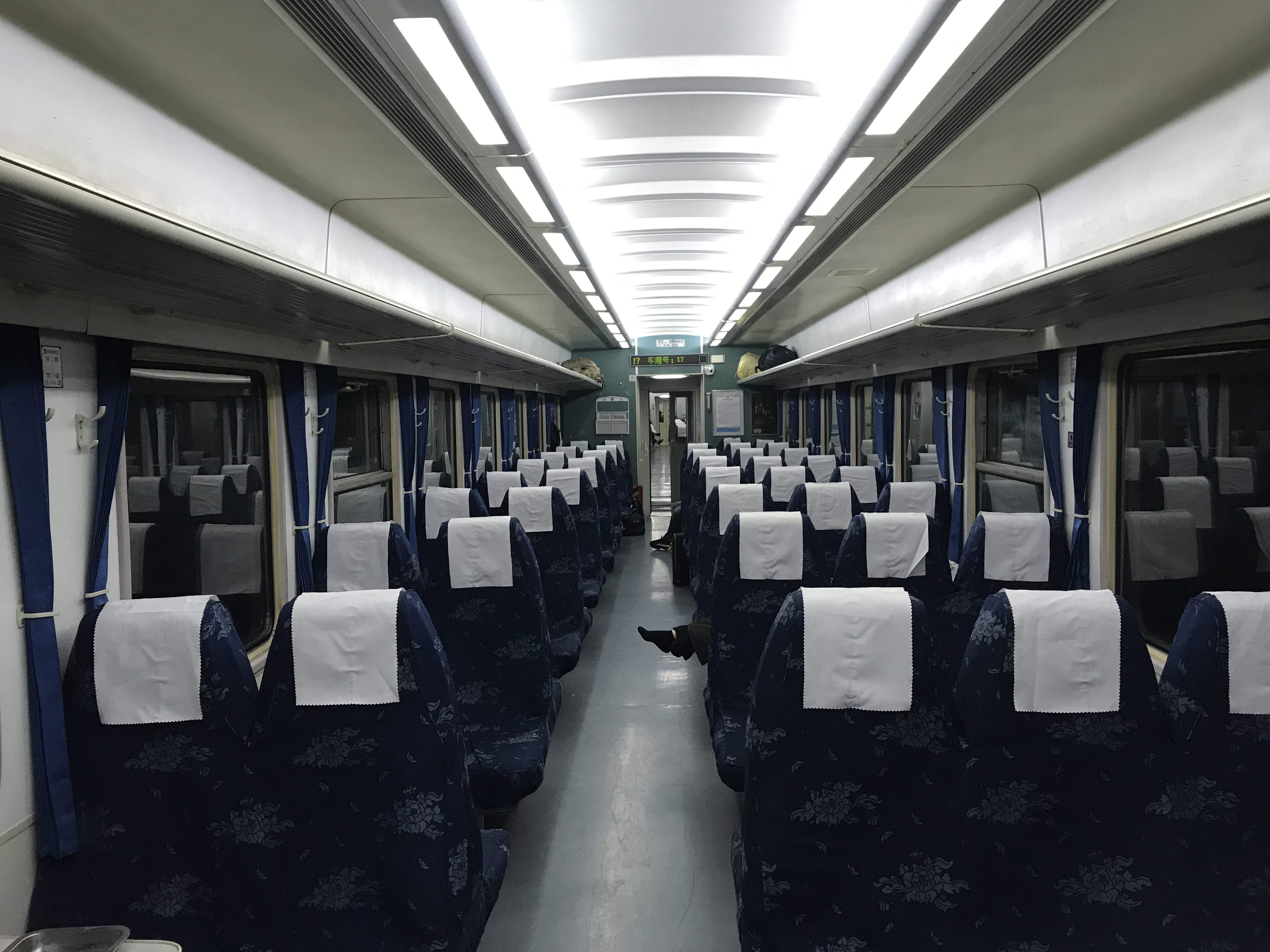 201812 Interior of YZ25K from T66. No beef noodle on service in the midnight.